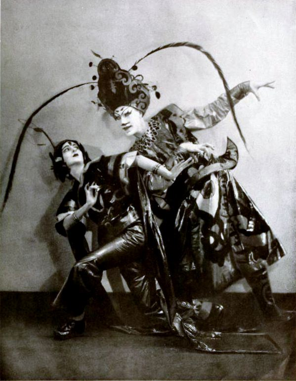 Ruth Page and Hubert Julian "Jay" Stowitts, on page 55 of the January 1923 Shadowland. They were both performers at the "Music Box Revue" (1922-23).